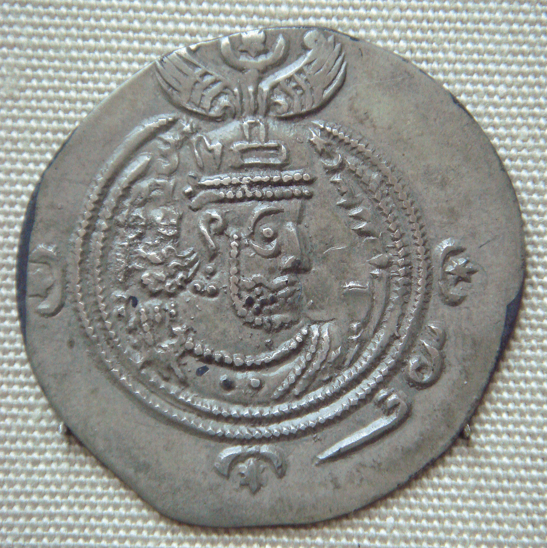 Coin of Khusrau II